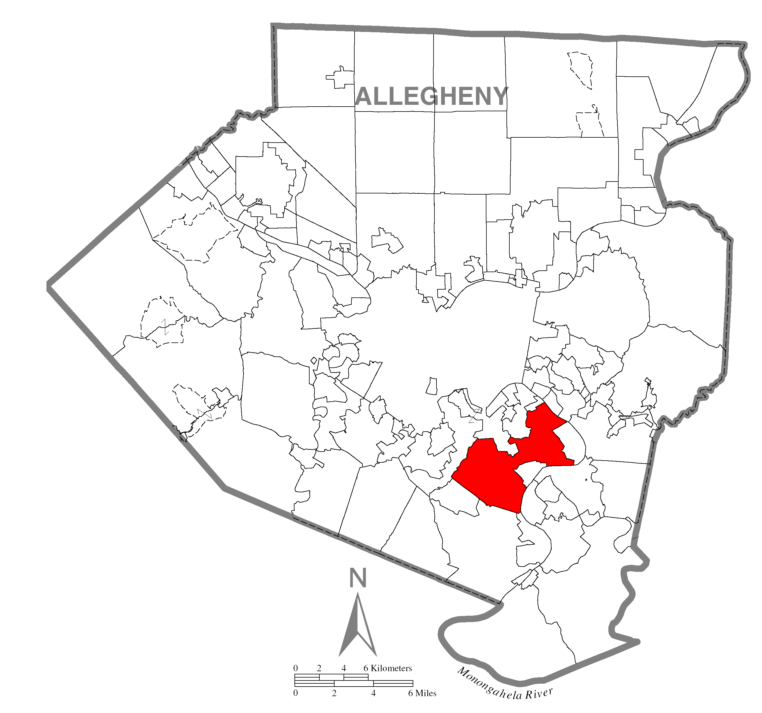 A map of Allegheny County showing West Mifflin, Pennsylvania (alternate) highlighted on the map.